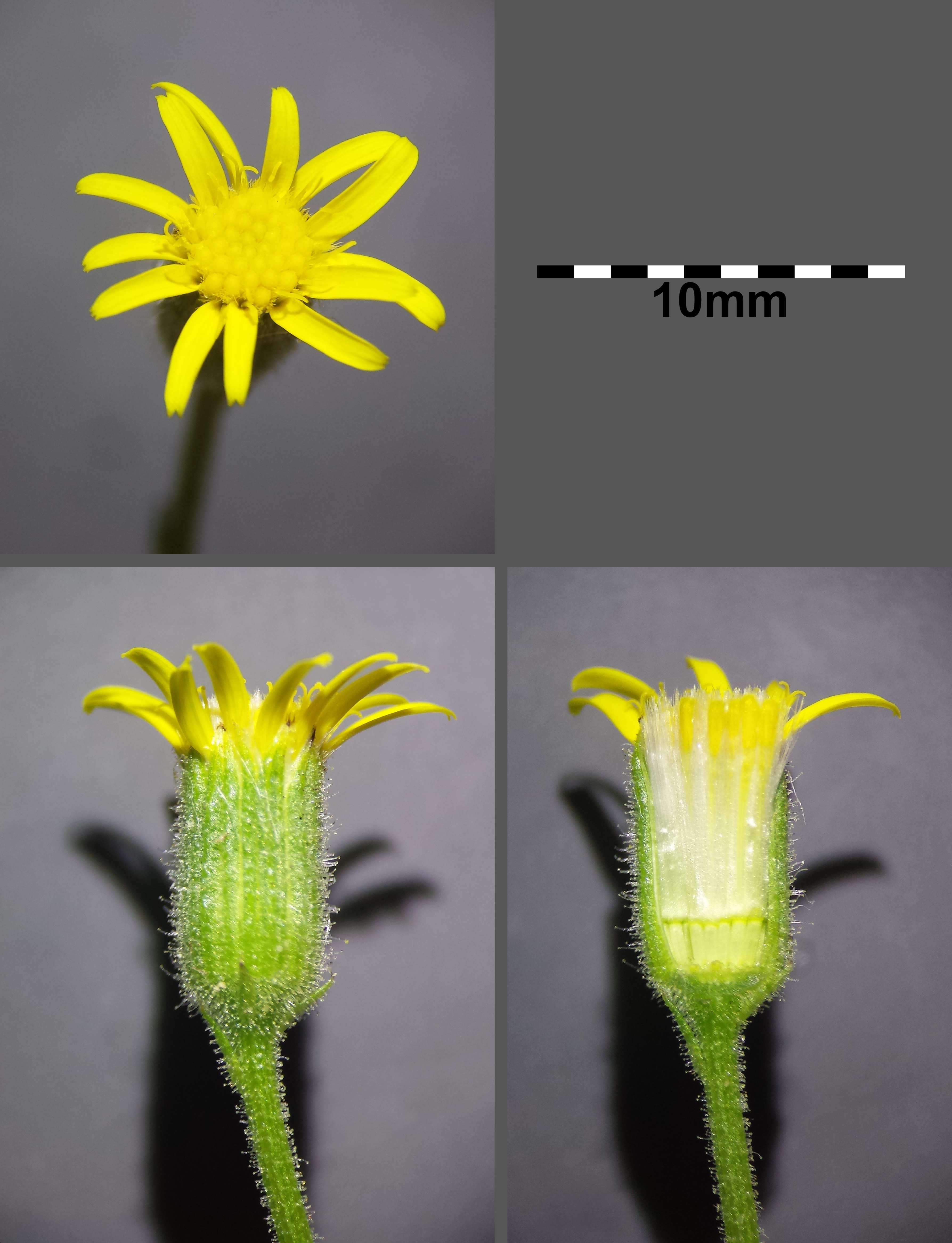 Flower basket Taxonym: Senecio viscosus ss Fischer et al. EfÖLS 2008 ISBN 978-3-85474-187-9 Location: Jedlersdorf rail station, Vienna-Floridsdorf - ca. 160 m a.s.l. Habitat: ballast